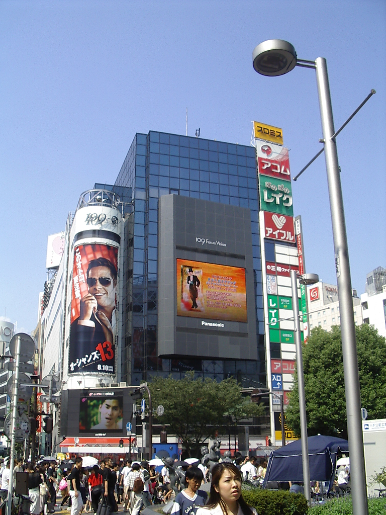 Shibuya 109-2 seen from Shibuya Station Hachiko Gate